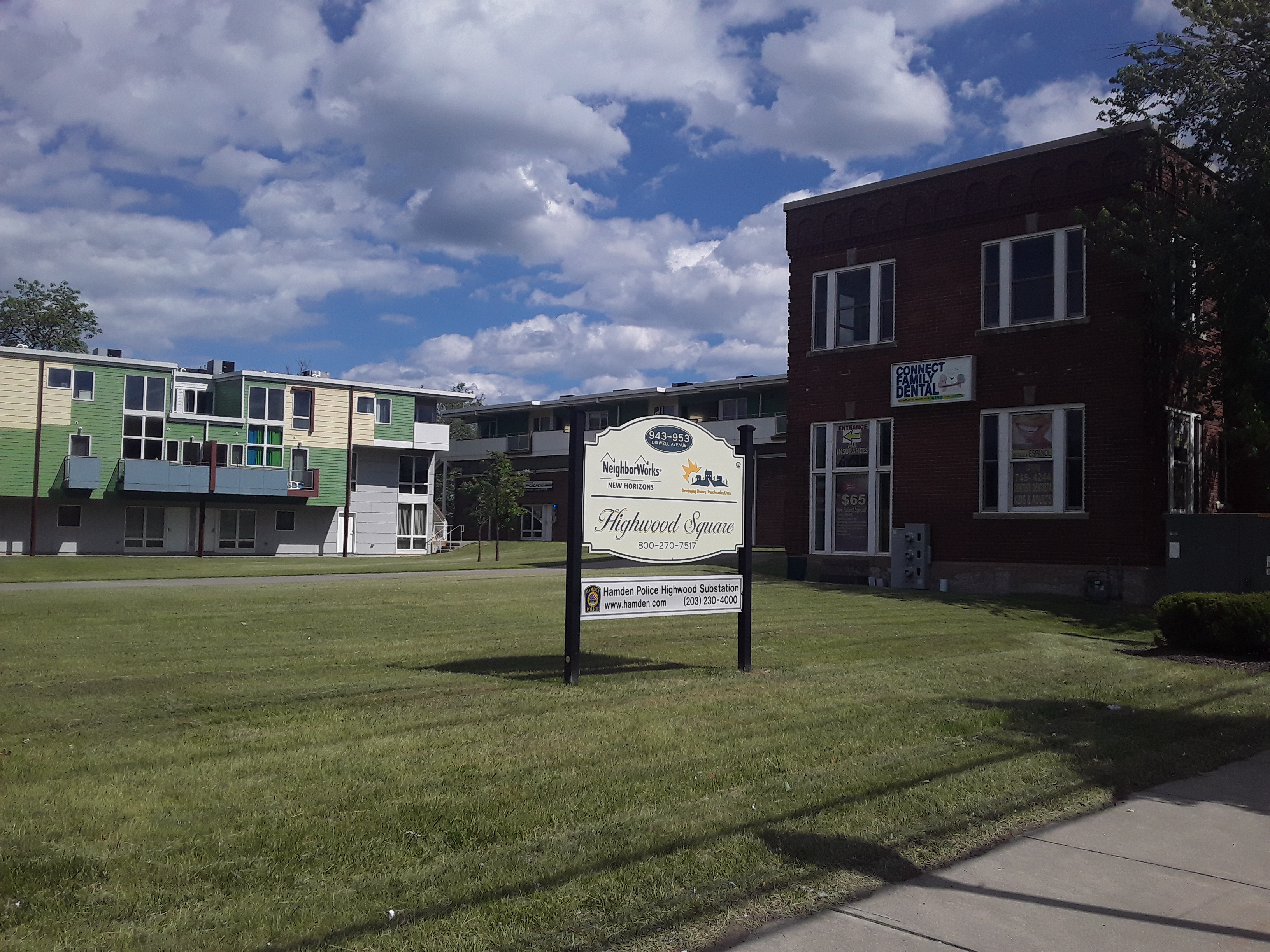 Highwood Square mixed-use development, partially in an old industrial building, in the Highwood neighborhood of Hamden, Connecticut